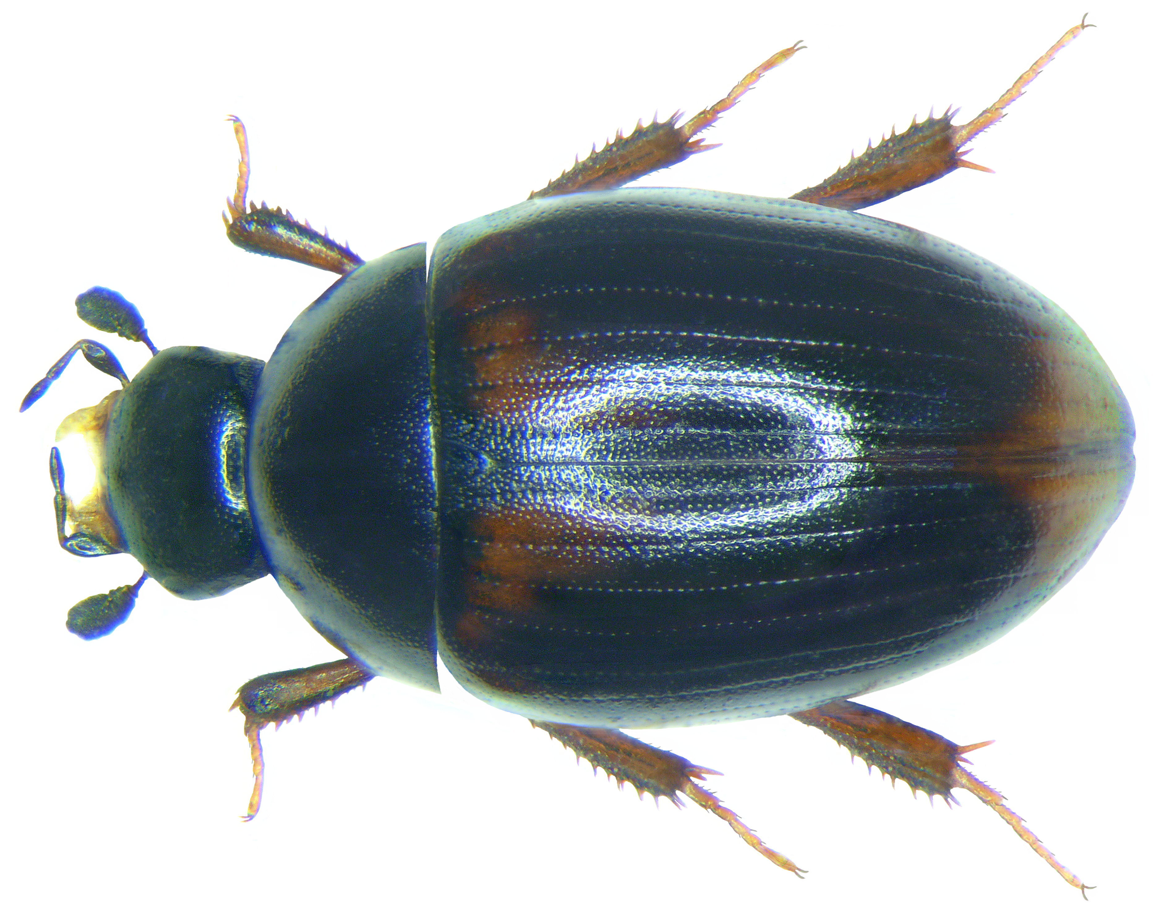 Cercyon haemorrhoidalis, a beetle in the family Hydrophilidae Familie: Hydrophilidae Grösse: 2,5-3,1 mm Verbreitung: Europa, überall häufig Ökologie: im Mist Fundort: Germania, Oberfranken, Saalenstein leg.det. U.Schmidt, 2000 Foto: U.Schmidt, 2008